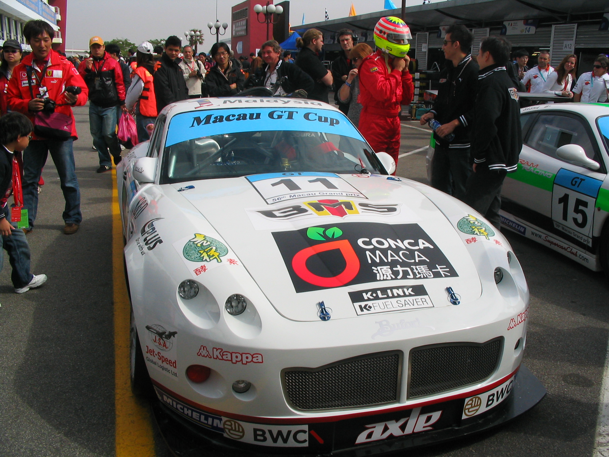 Alex Yoong standing beside the Bufori BMS R1 race car at the 2009 Macau Grand Prix.